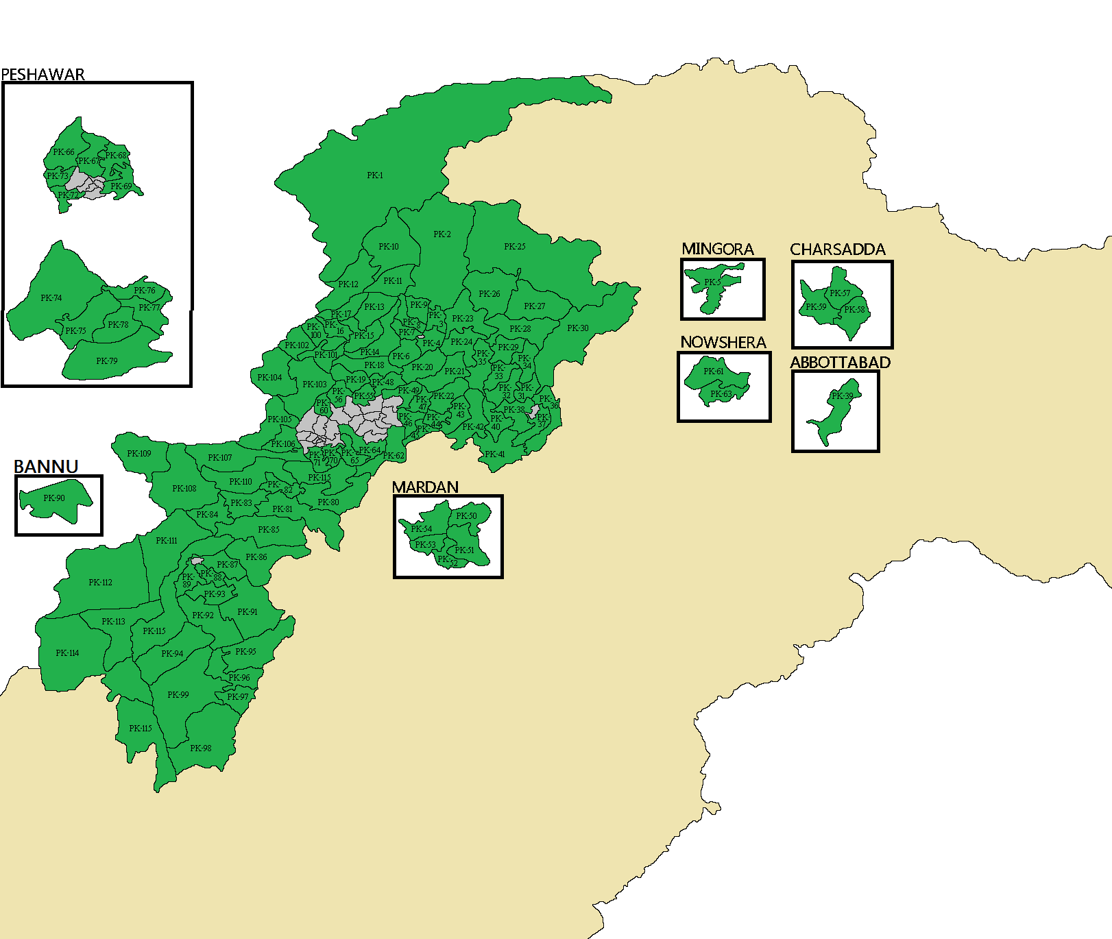 Map of Khyber Pakhtunkhwa showing Assembly Constituencies after 2018 Delimitation